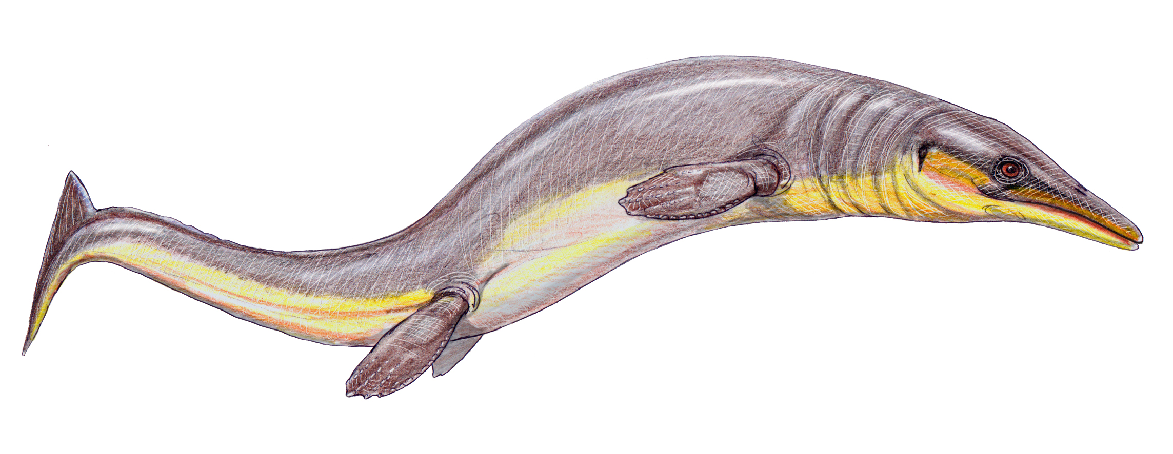 Halisaurus arambourgi, small mosasaur from Late Cretaceous (Late Maastrichtian) of Marocco